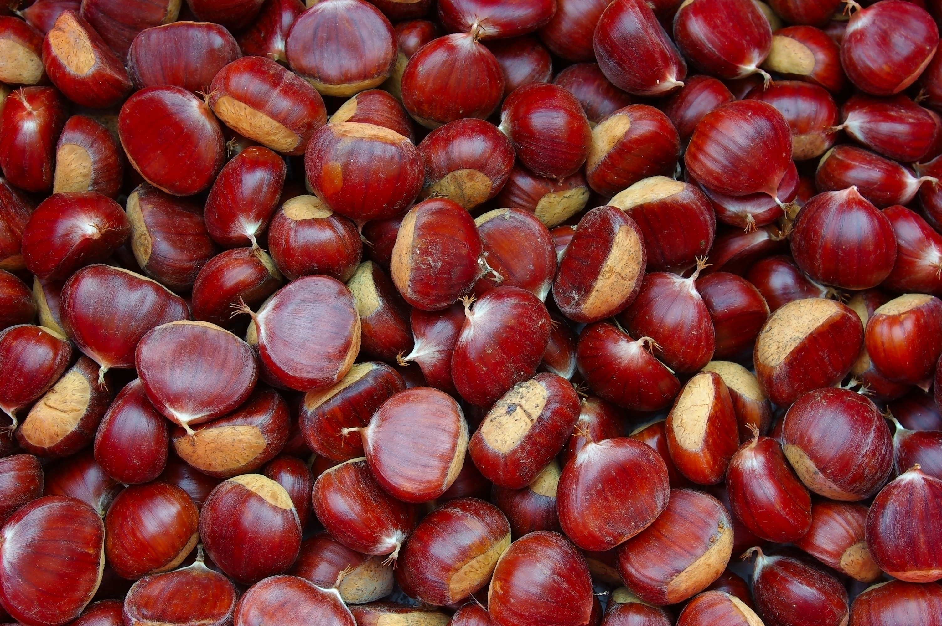 Chestnuts (Castanea sativa). Romagne, Vienne, France.